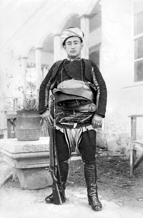 Yörük Ali Efe